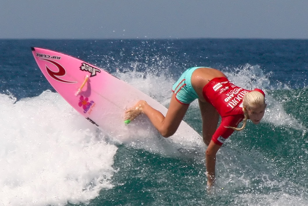 Photo by Noah Hamilton